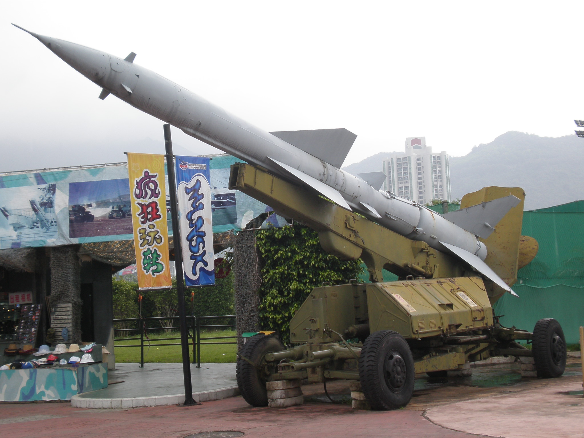 A Chinese HQ-2 surface to air missile (SAM), derived from the Soviet S-75, on display at the Minsk World theme park in Shenzhen, PRC.